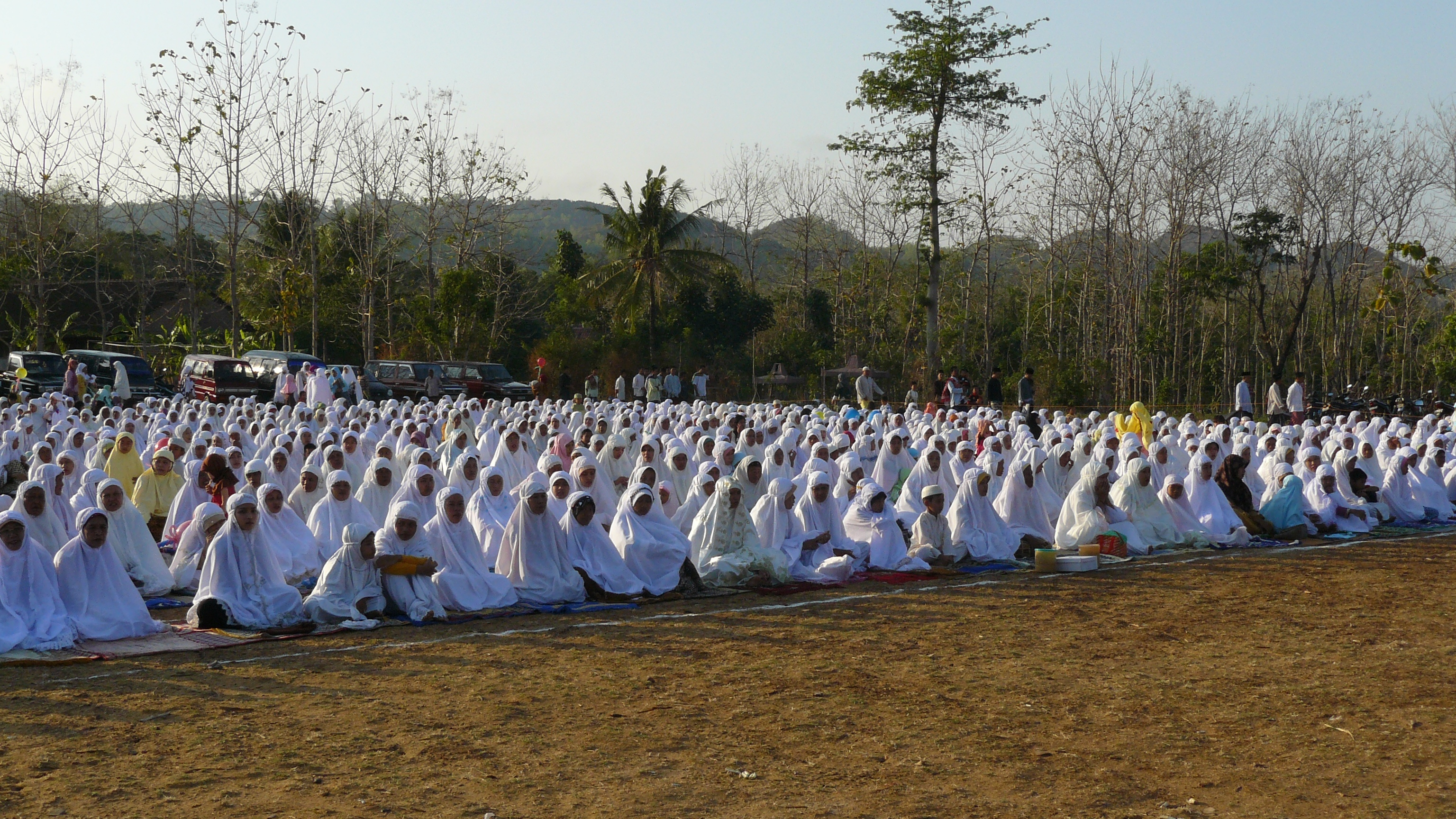 Eid ul-fitr prayer in Indonesia